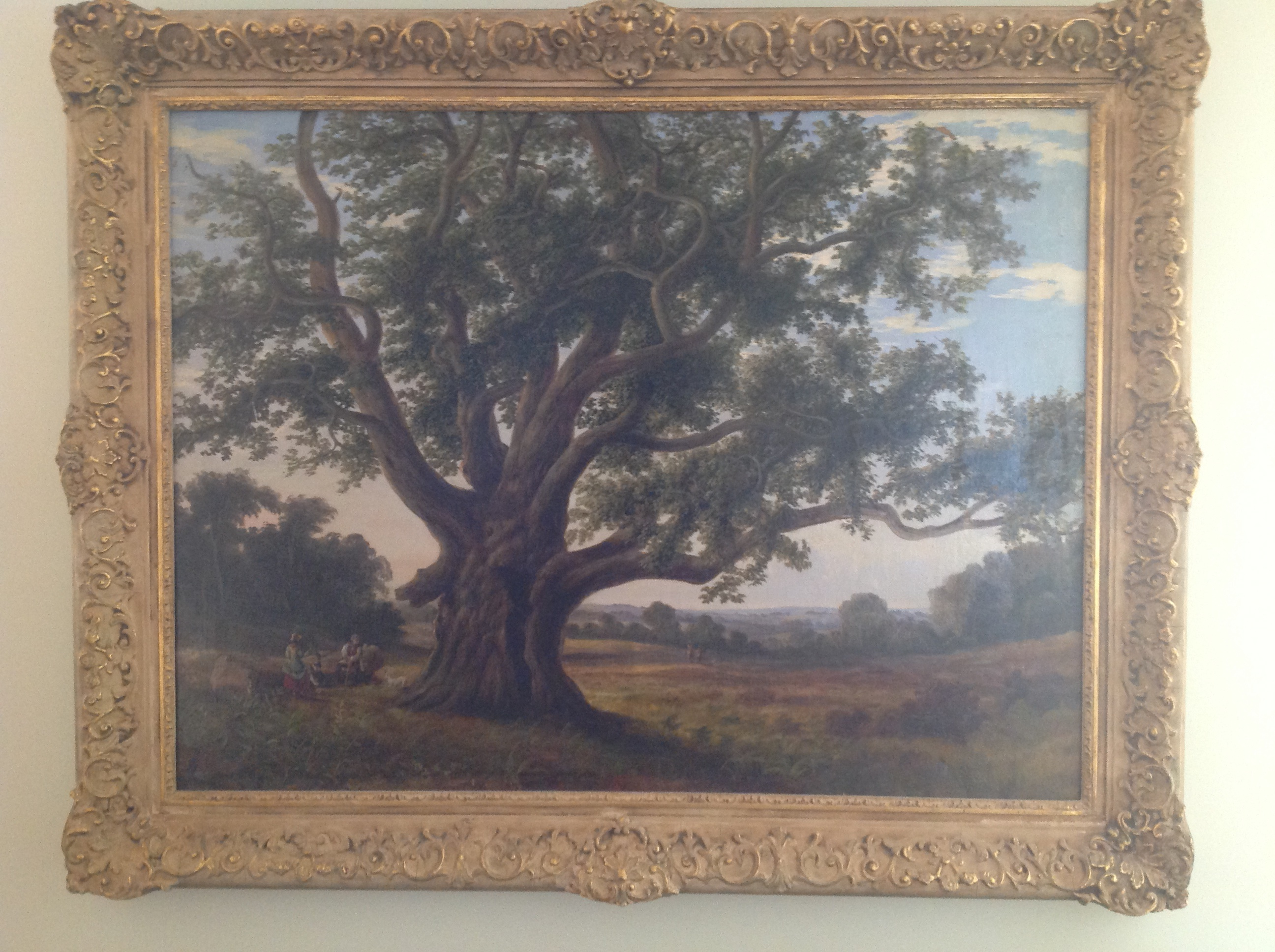 This is a photo of the original oil painting of the Cowthorpe Oak by T. Newnham in 1854 and sold by the Leeds Auction house in February 1869 from the estate of Thomas Thompson and now owned by David Hinds of Natick Massachusetts.